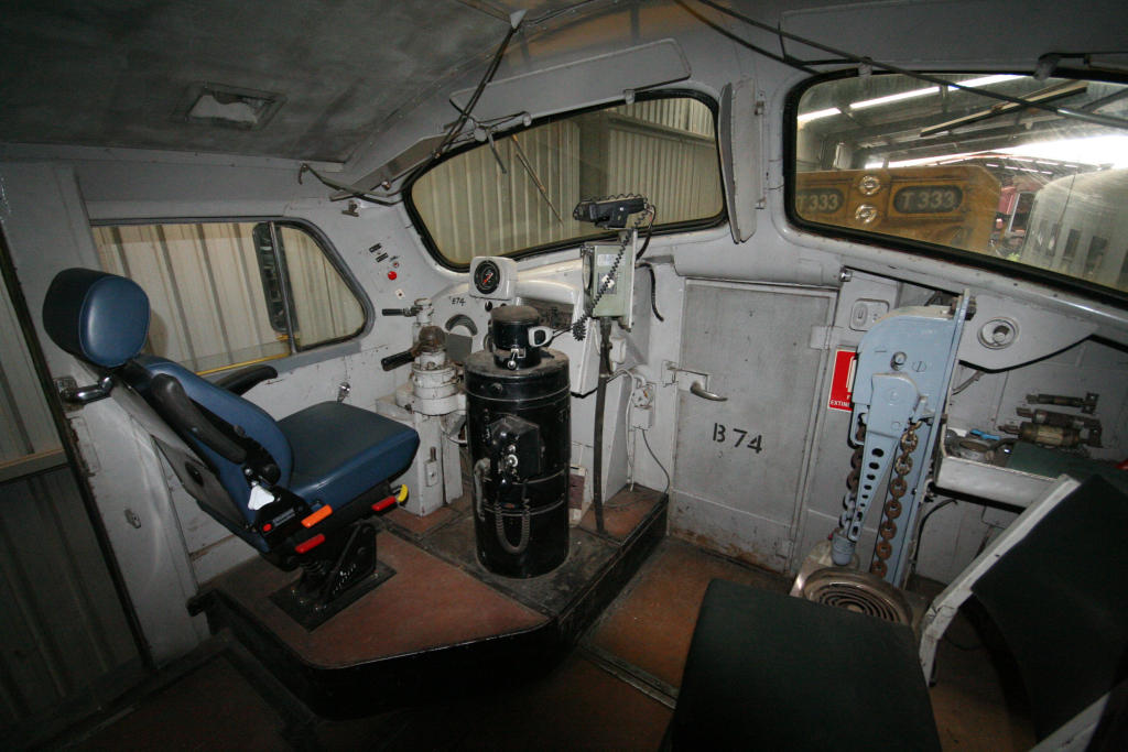 Victorian Railways B class (diesel) B74 as preserved by the Seymour Railway Heritage Centre, cab view